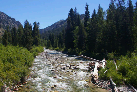 North Fork Boise River at Deer Park Cabin, river mile 21